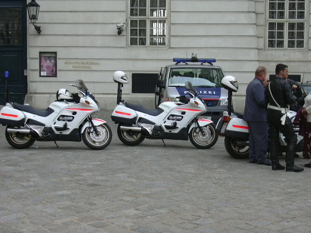 Policemotorcycles - Vienna/Austria